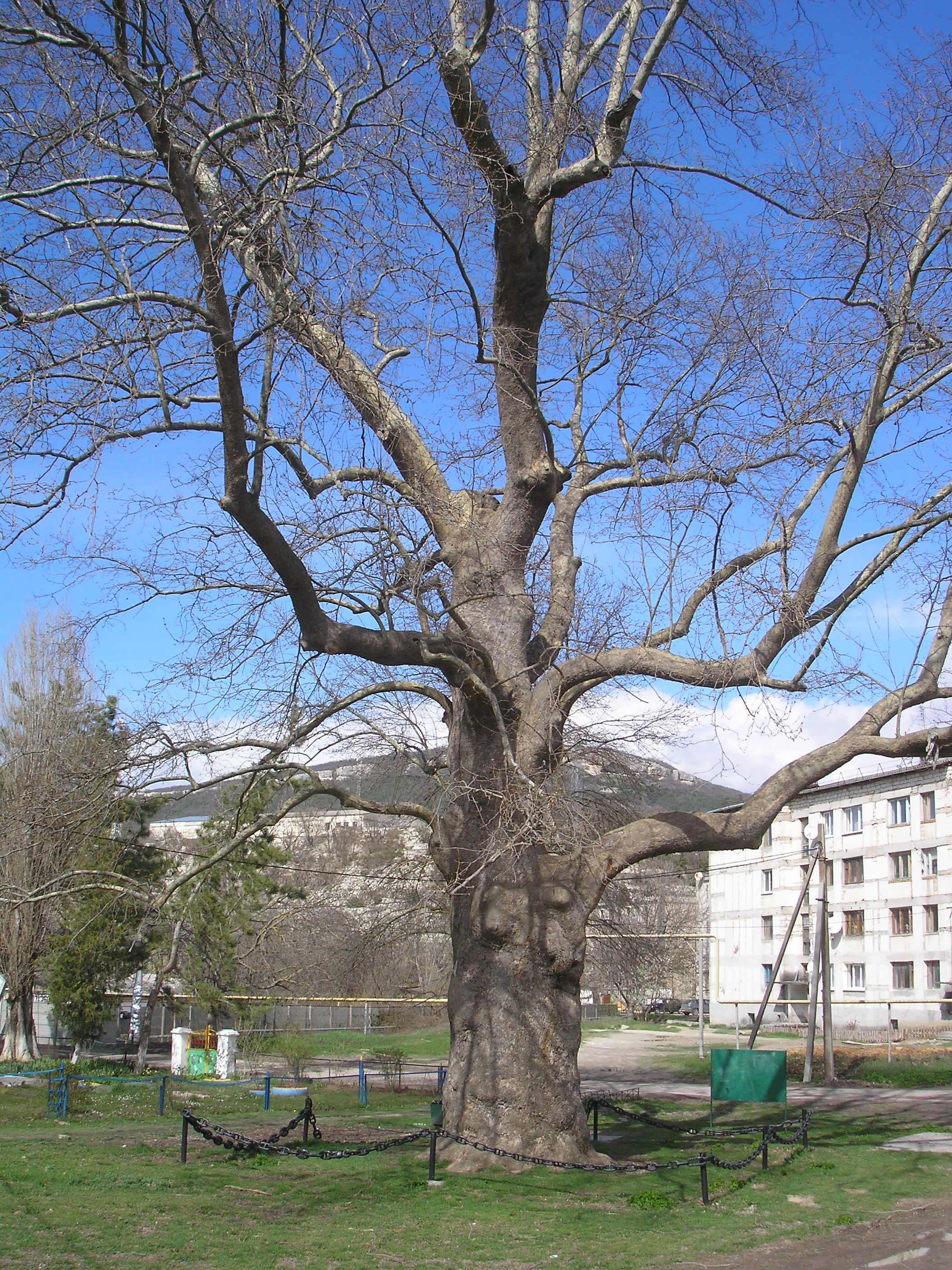 Sycamore of Pallas. Village Ternovka, Sevastopol